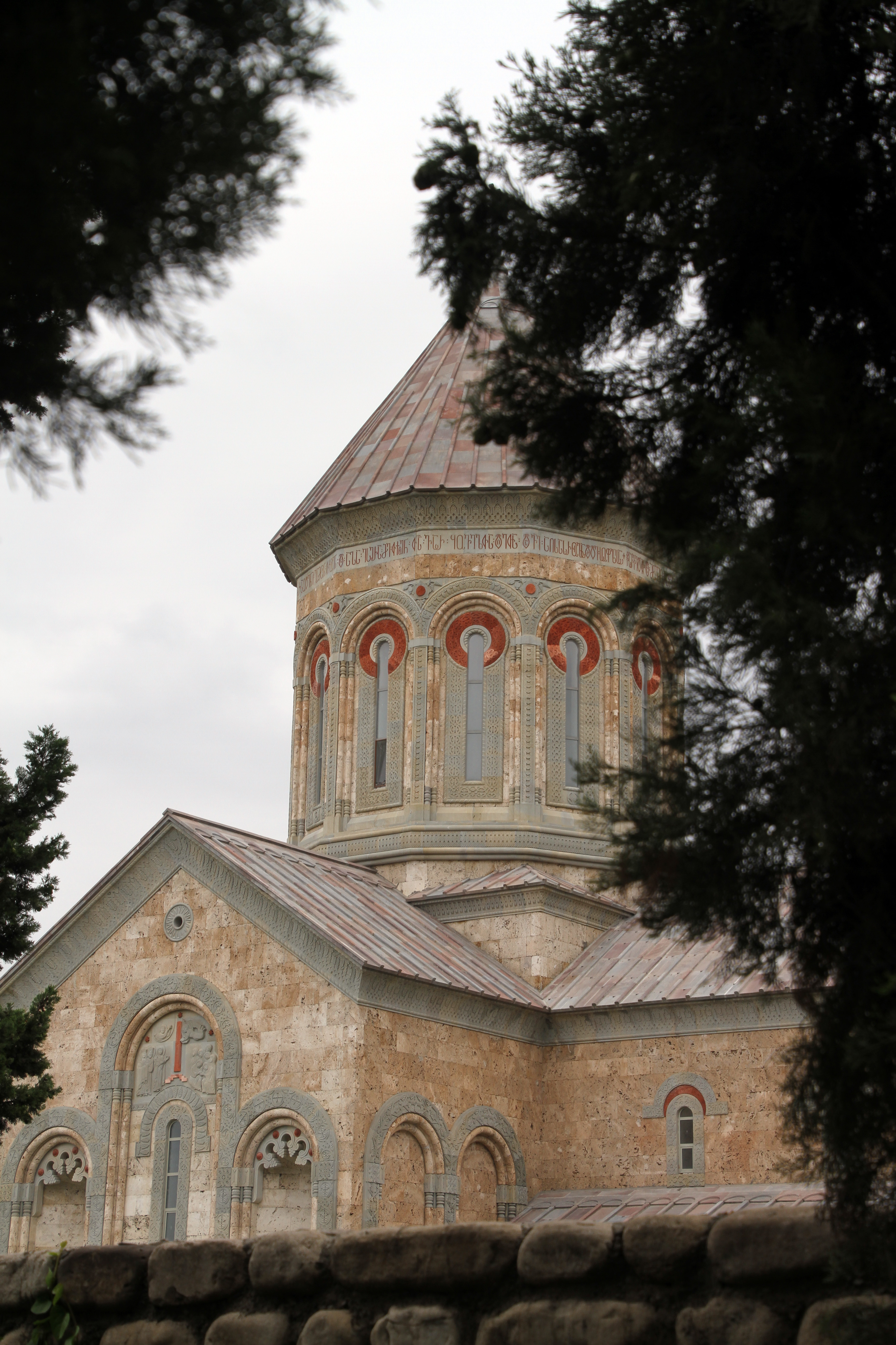 Bodbe Monastery, Sighnaghi